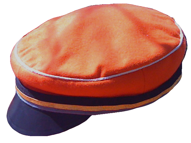 Hat of Alemanno-Palatia